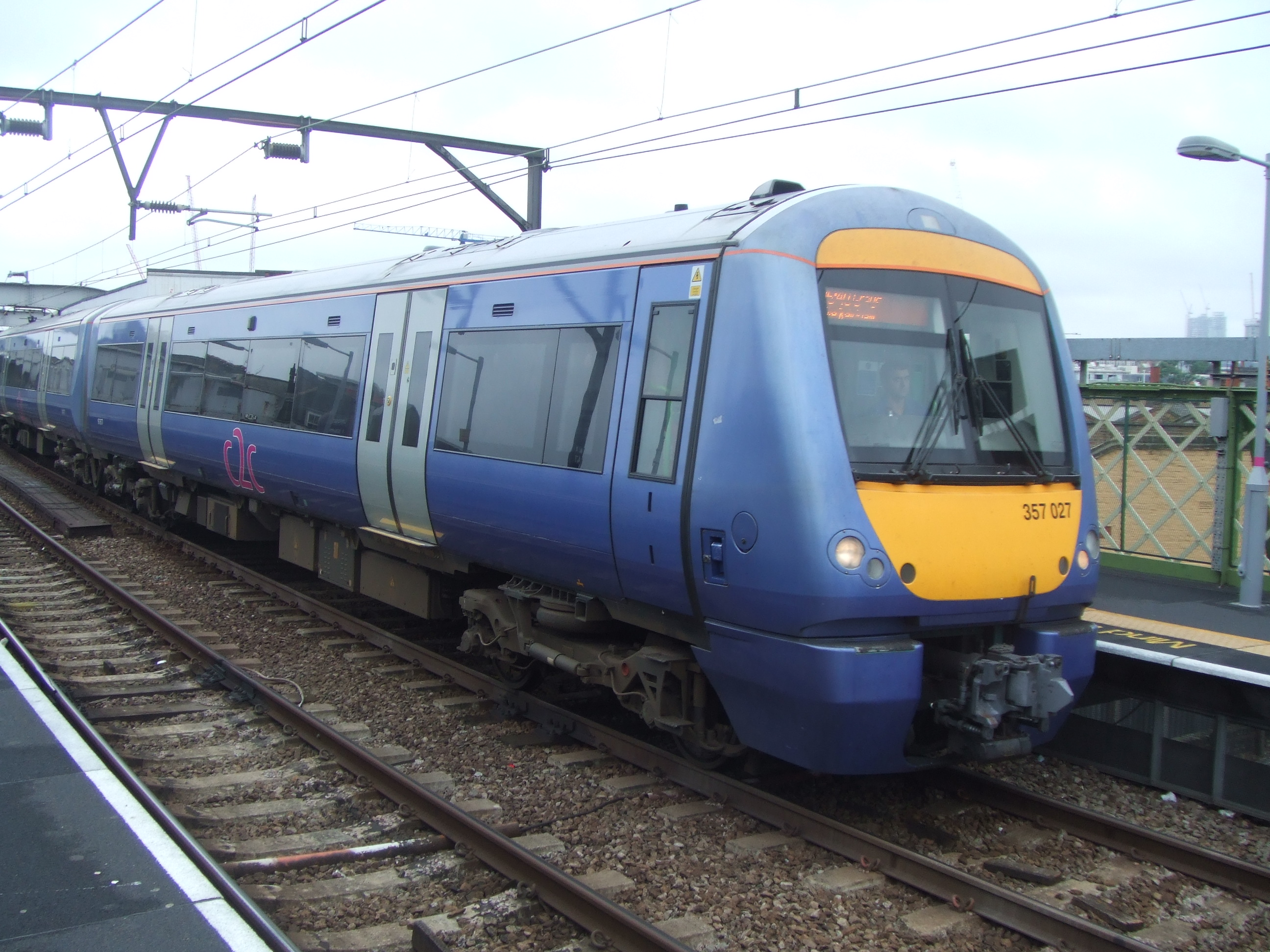 Adtranz (Derby) Class 357/0 "Electorstar" 25k v ac overhead outer-suburban 4-car emu No.357 027 of C2C at Limehouse 08/07.